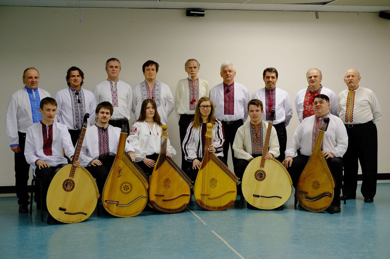 Toronto Bandurist Capella